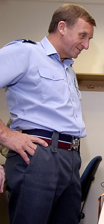 British Royal Air Force Air Marshal Barry Thornton